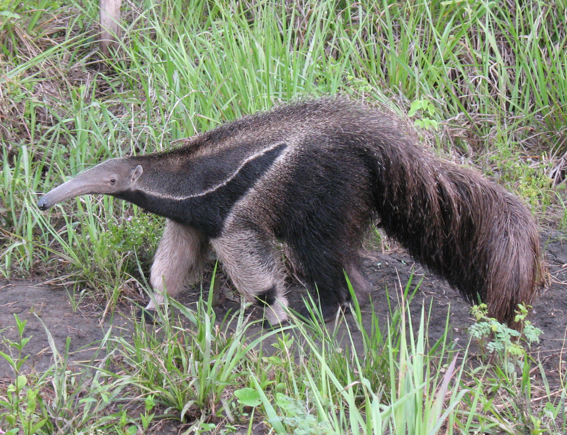 Myrmecophaga tridactyla; Giant Anteater in the Pantanal region, Brazil